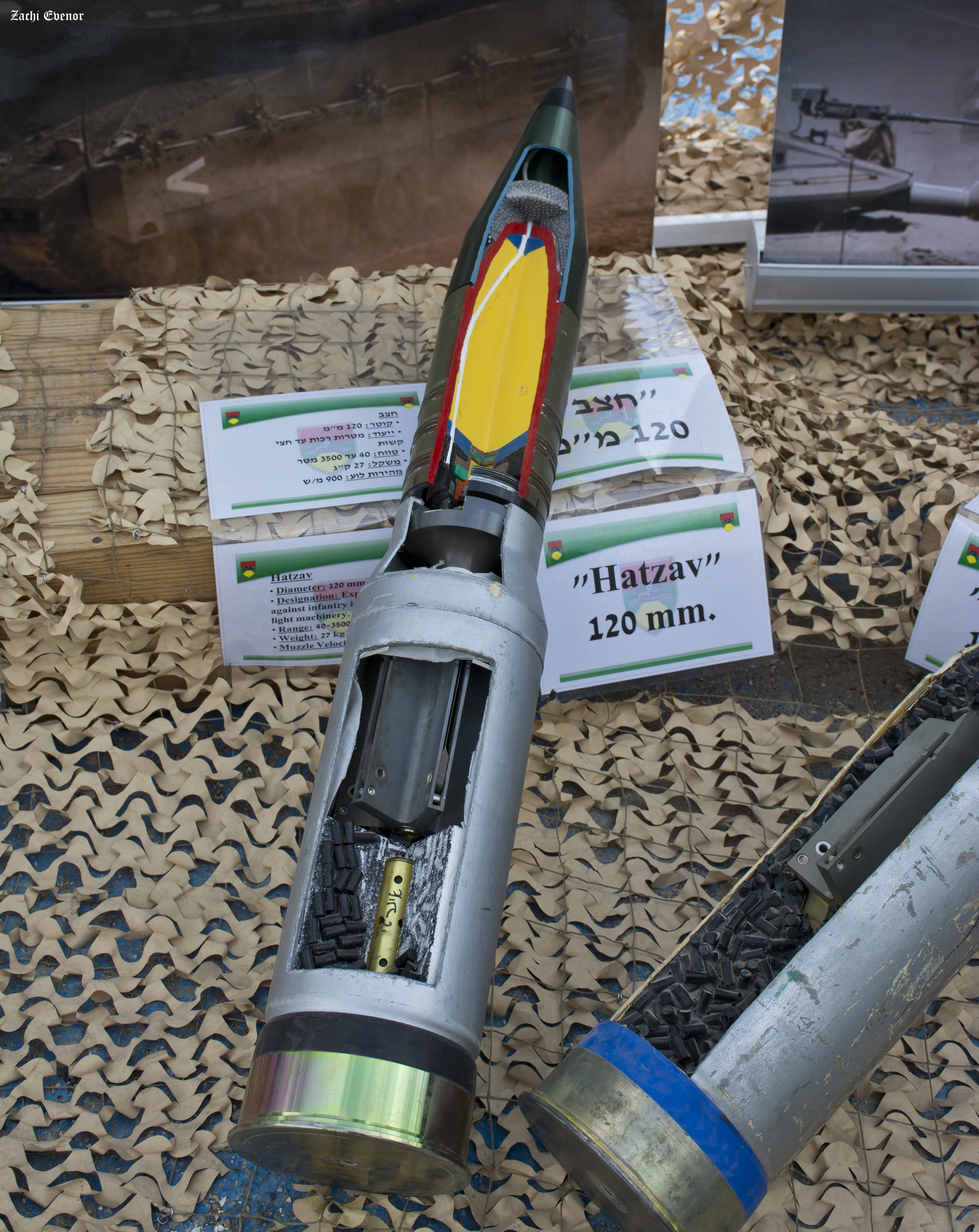 IMI Hatzav 120 mm tank cartridge